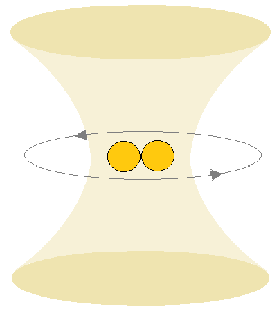 Drawing of nanodumbbels spinning